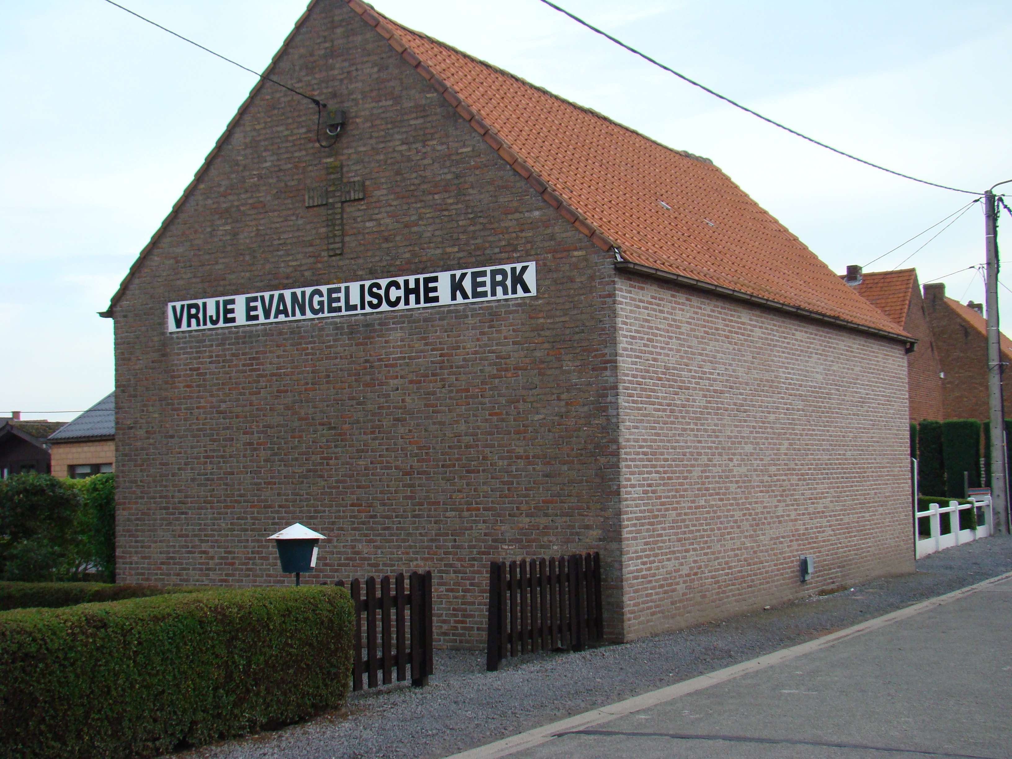 Oostrozebeke (West Flanders, Belgium)